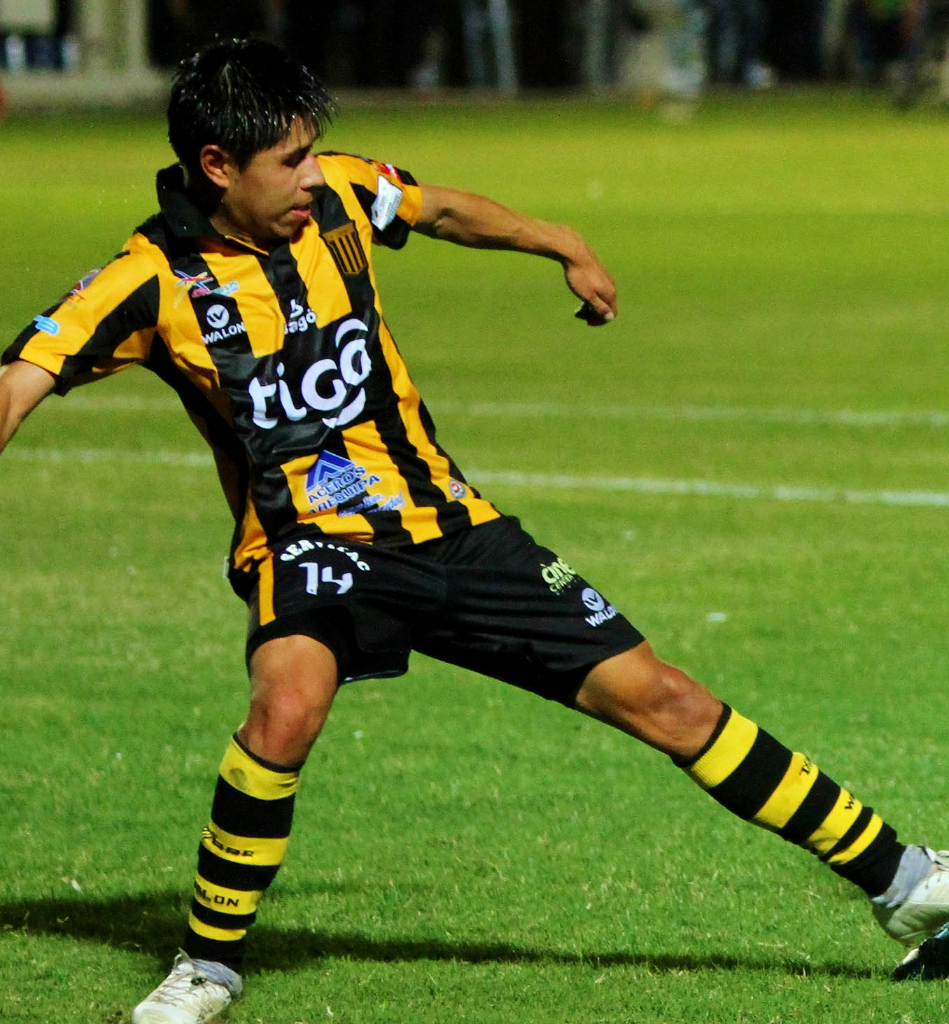 Manta, martes 24 de febraro del 2015 (ANDES).-Emelec golea 3x0 all The Strongest de Bolívia en el estadio Jocay de la ciudad de Manta, Manabí, partido jugado por Copa Libertadores.Foto:César Muñoz/ANDES